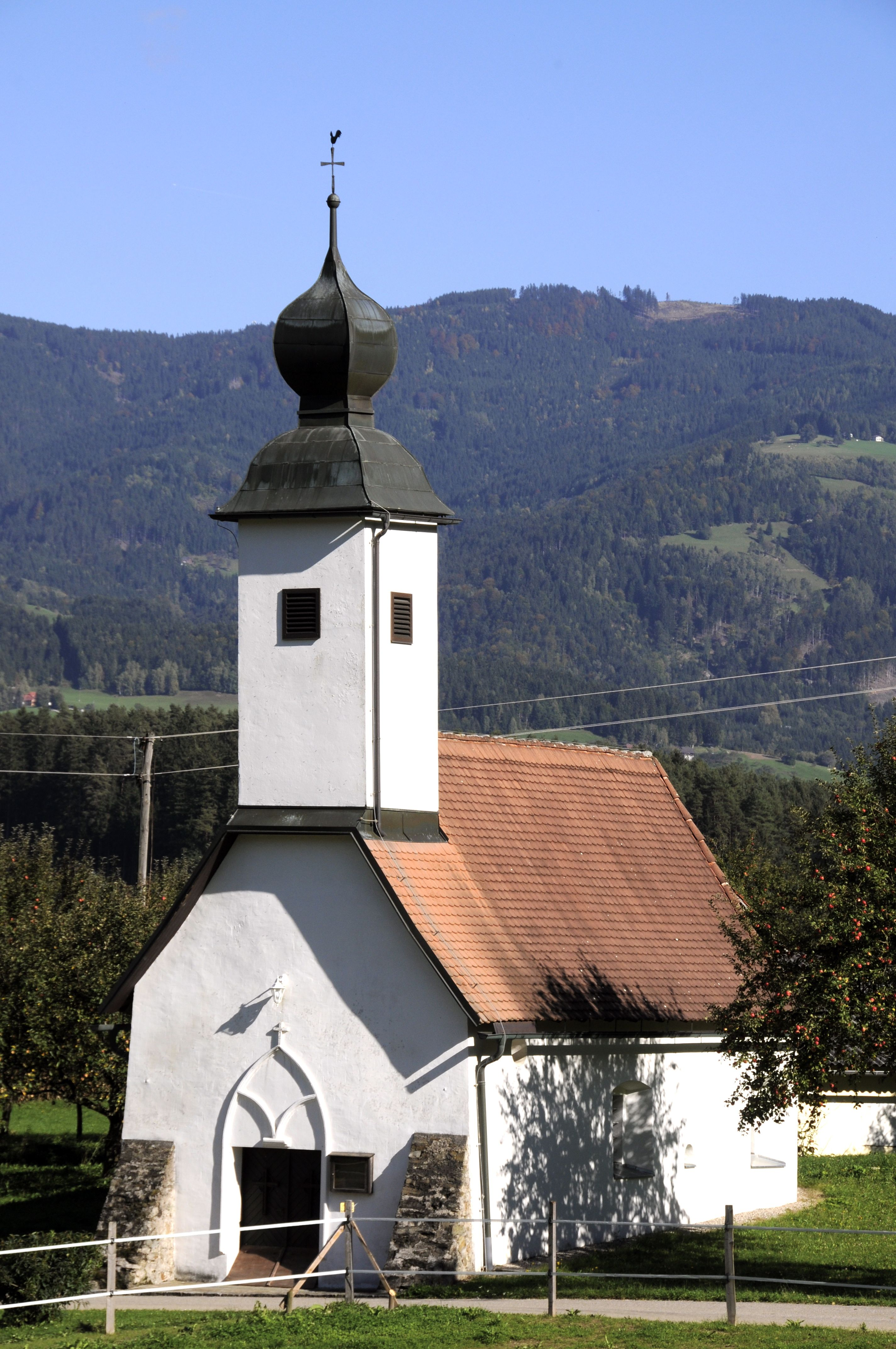 Subsidiary church Saint Agnes of Rome at Unterbergen, municipality Lavamünd, district Wolfsberg, Carinthia / Austria / EU